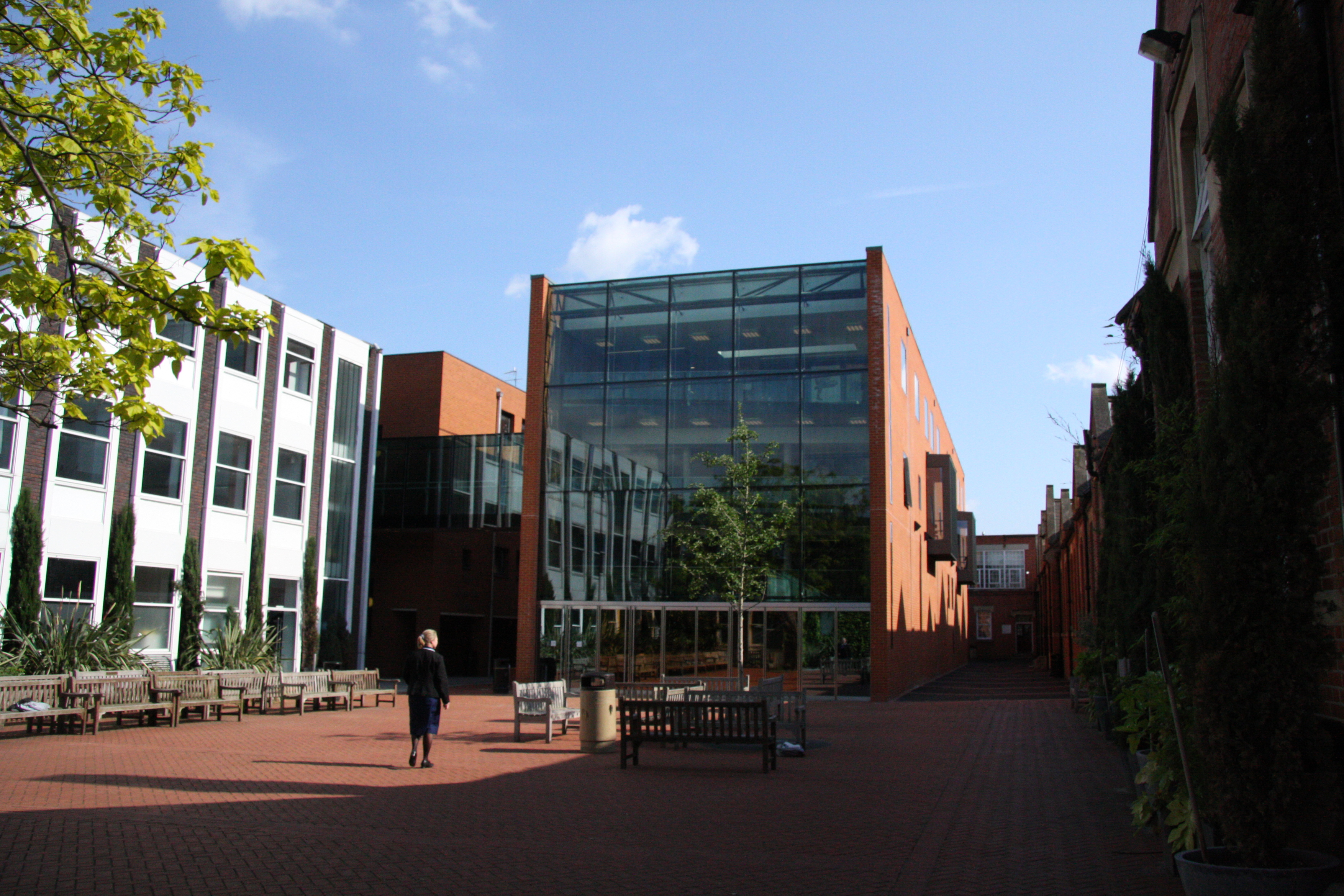 Courtyard view of new building which adjoins earlier arts building to the far left by means of glazed bridges. Opened in 2008 designed by van Heyningen and Haward Architects.